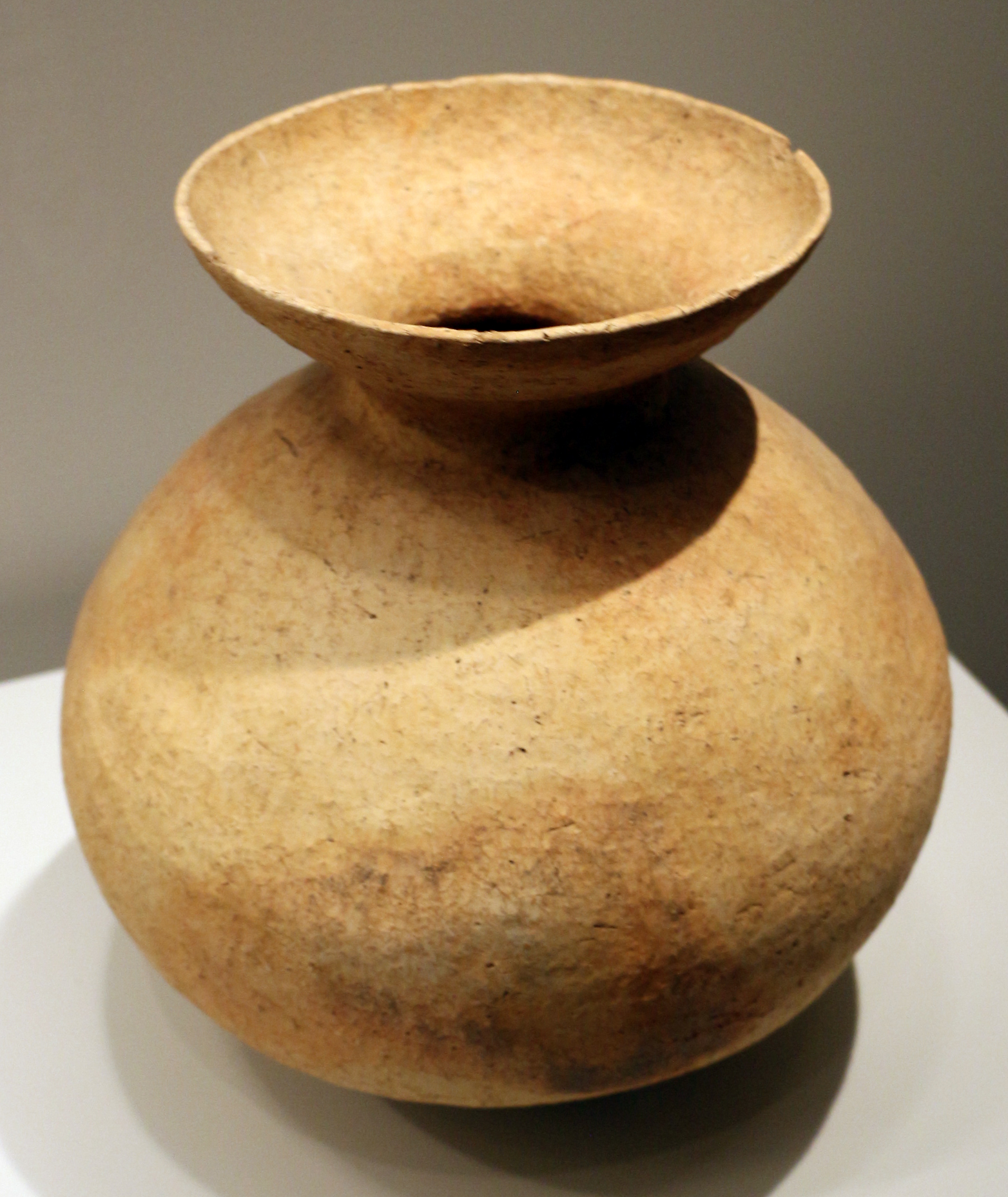 Japanese art in the Art Institute of Chicago